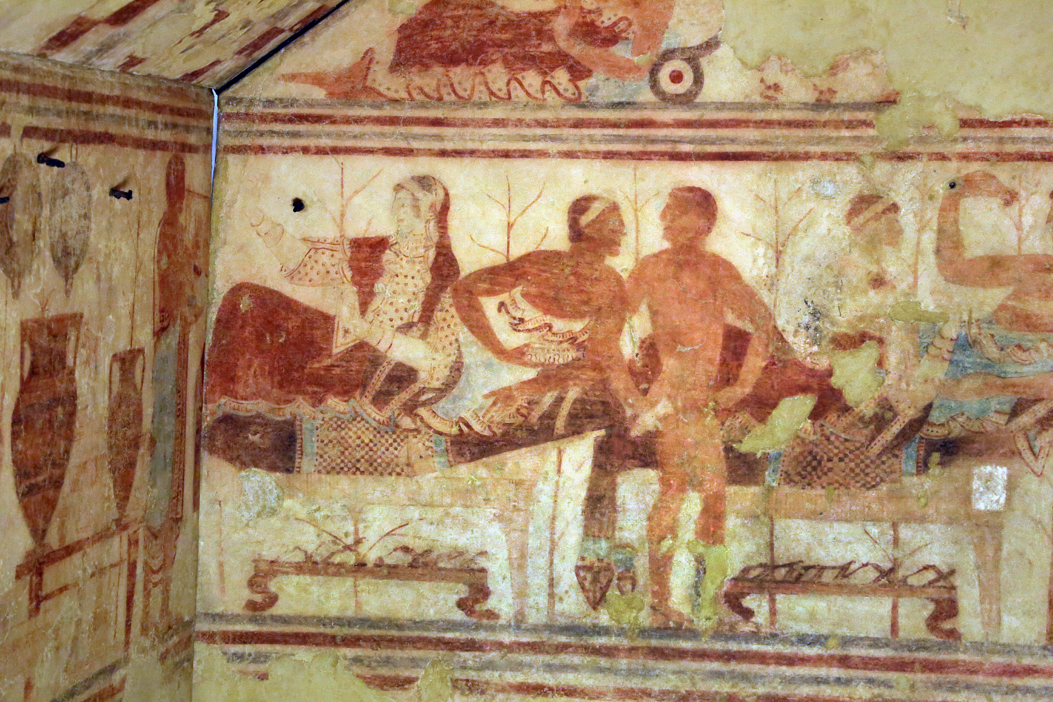 Etruscan antiquities the Museo archeologico nazionale (Tarquinia)